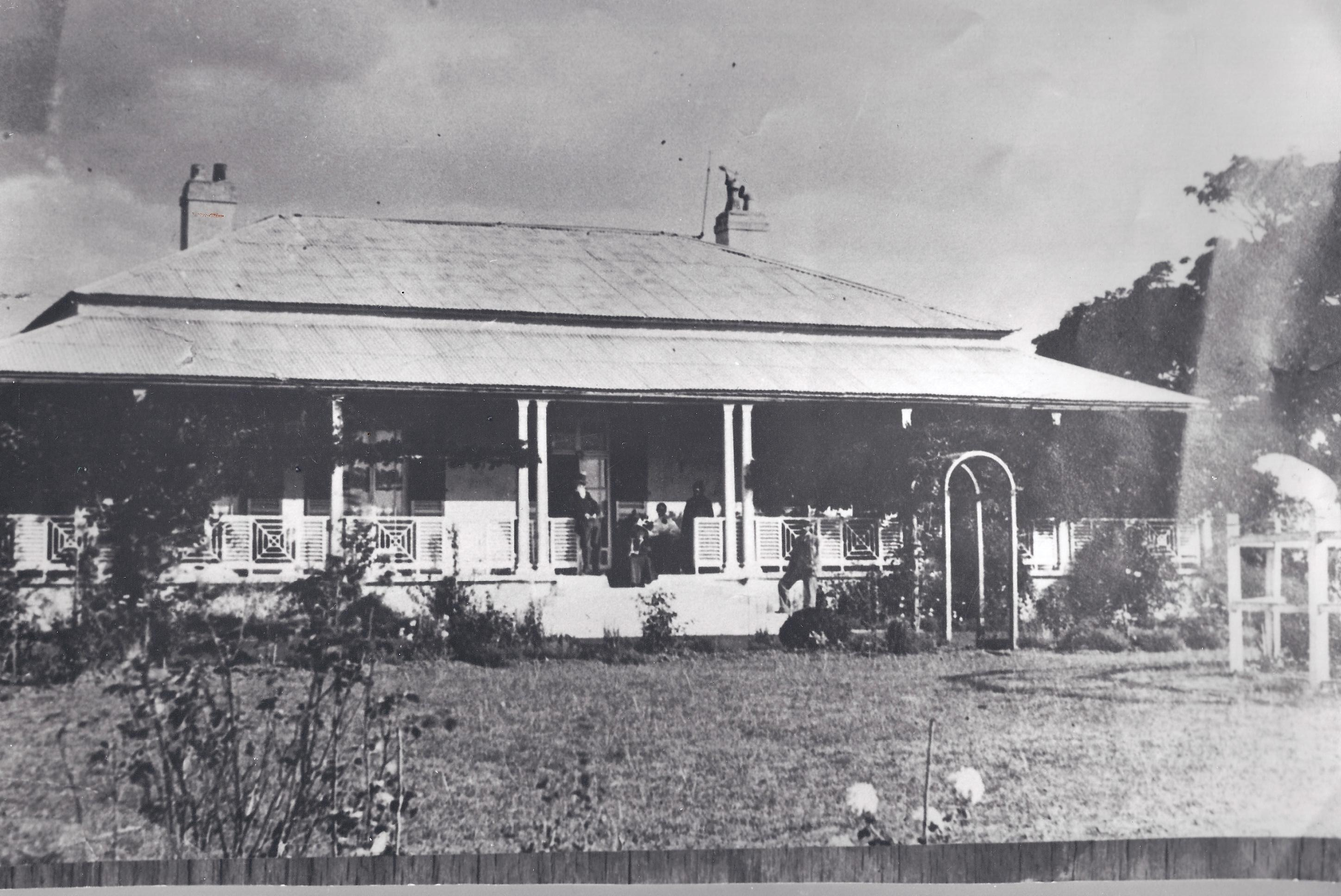 Picture of The Homestead taken in 1915